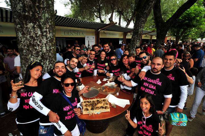 XOGOS POPULARES PREGON E INAUGURACION FIESTA ALBARIÑO PASEO DA CALZADA CAMBADOS